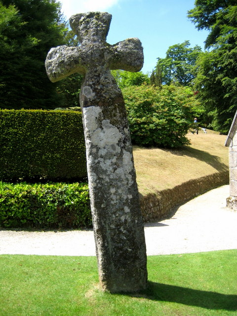 Ancient cross - St Hydroc's Church